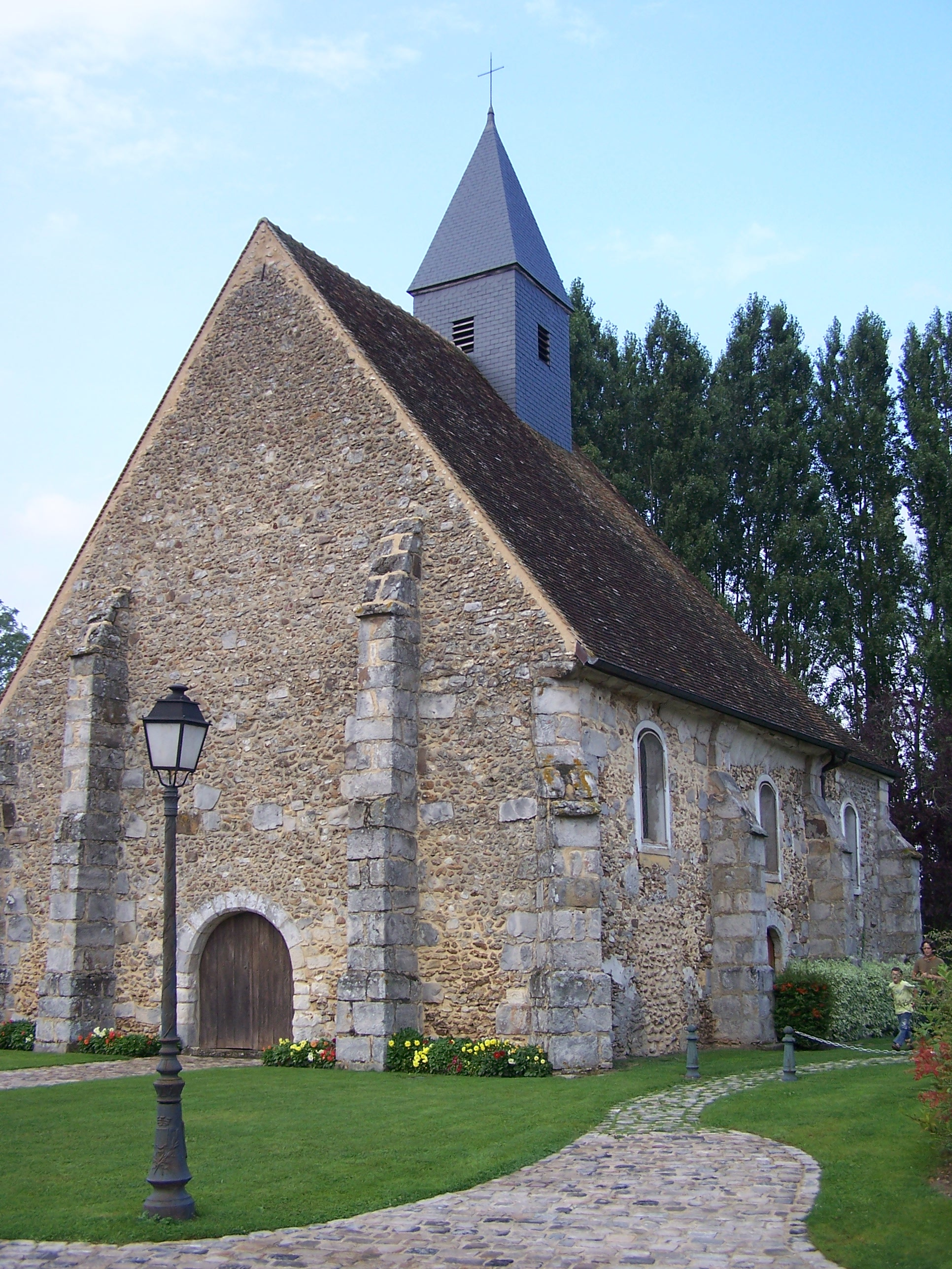 Church of Boissets (Yvelines, France)